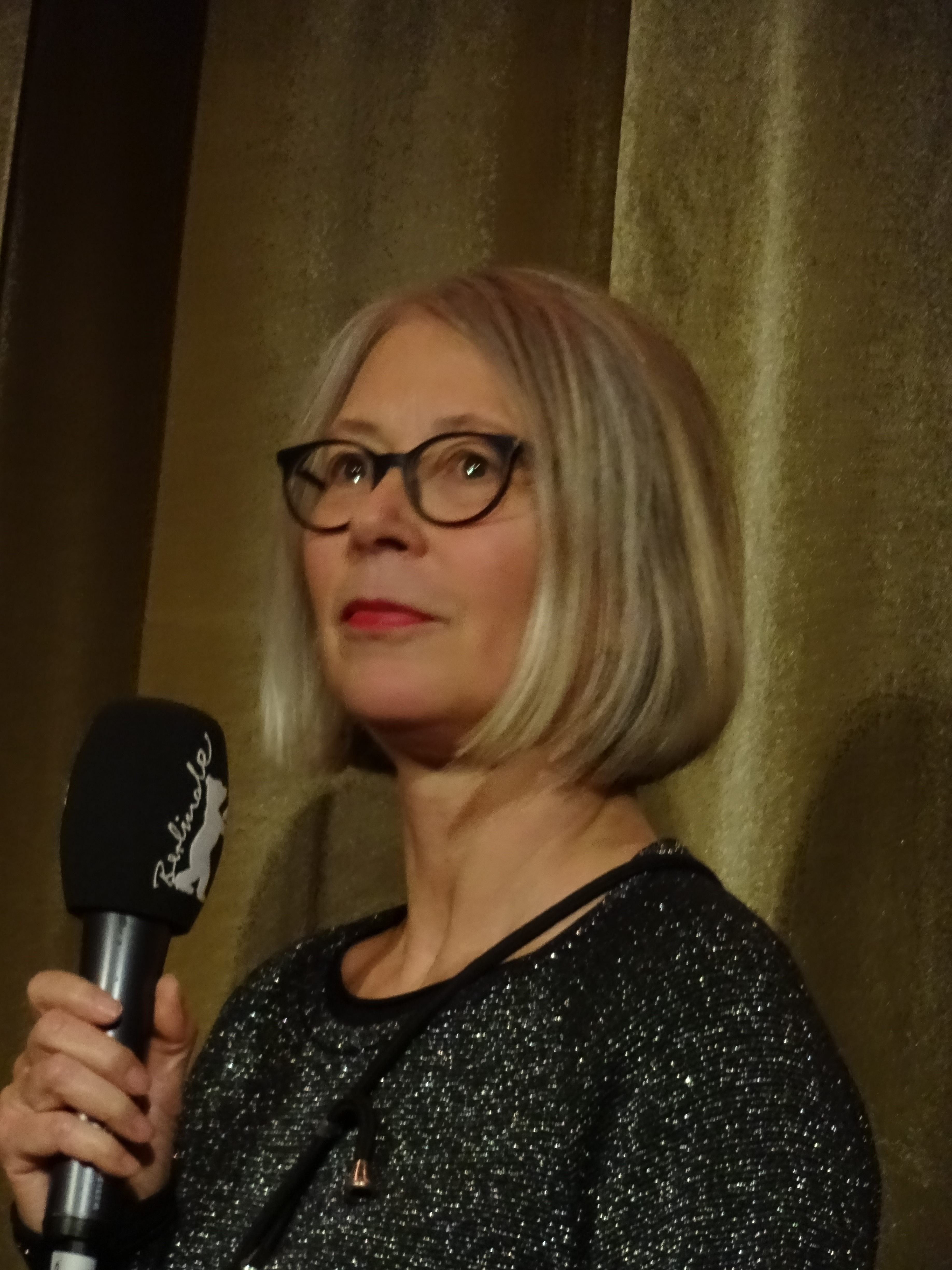 Film director Laurence Bonvin at a Q&A at Berlinale 2020, Berlin, introducing her short film Aletsch Negative